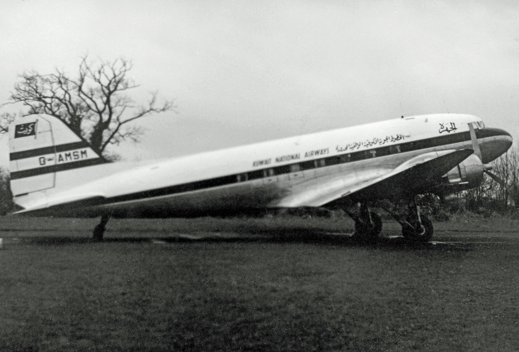 Douglas C-47B (DC-3) Dakota G-AMSM of Kuwait National Airways at London Stansted in 1955